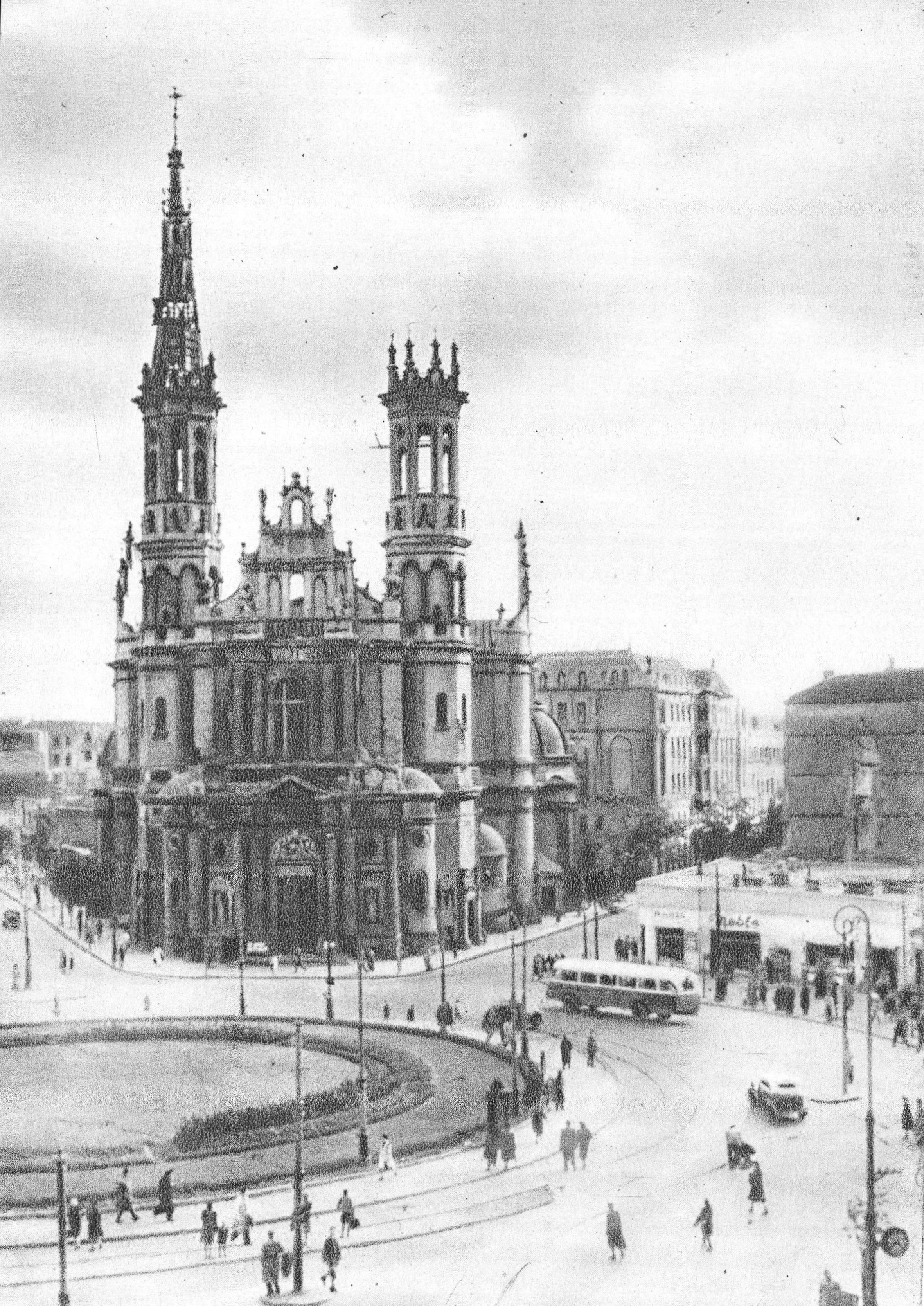 Saviour Square in Warsaw